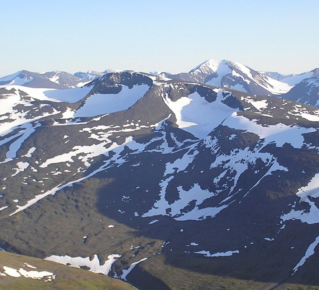 Glacial cirques behind Mount Tjåmuhas in Abisko National Park, Sweden